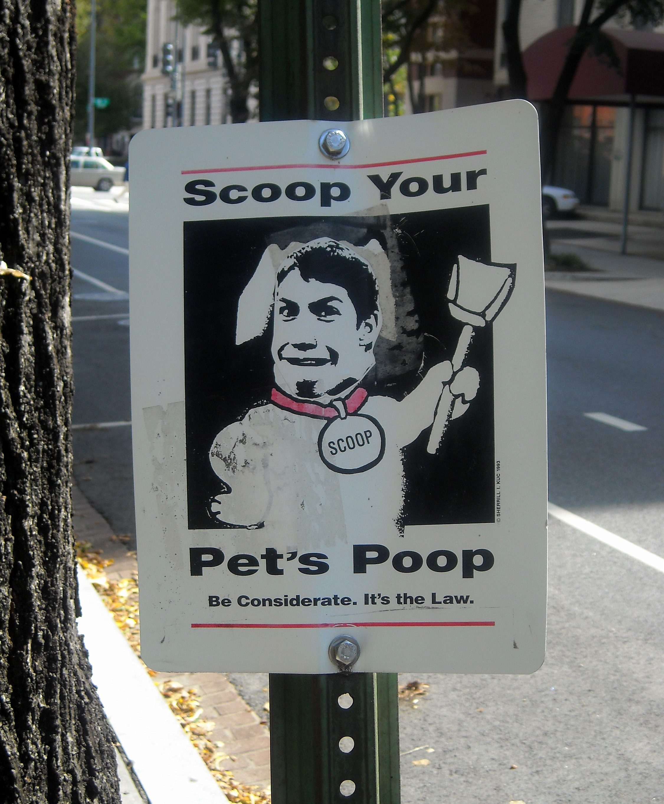 Hmm, I wonder who's face that is?